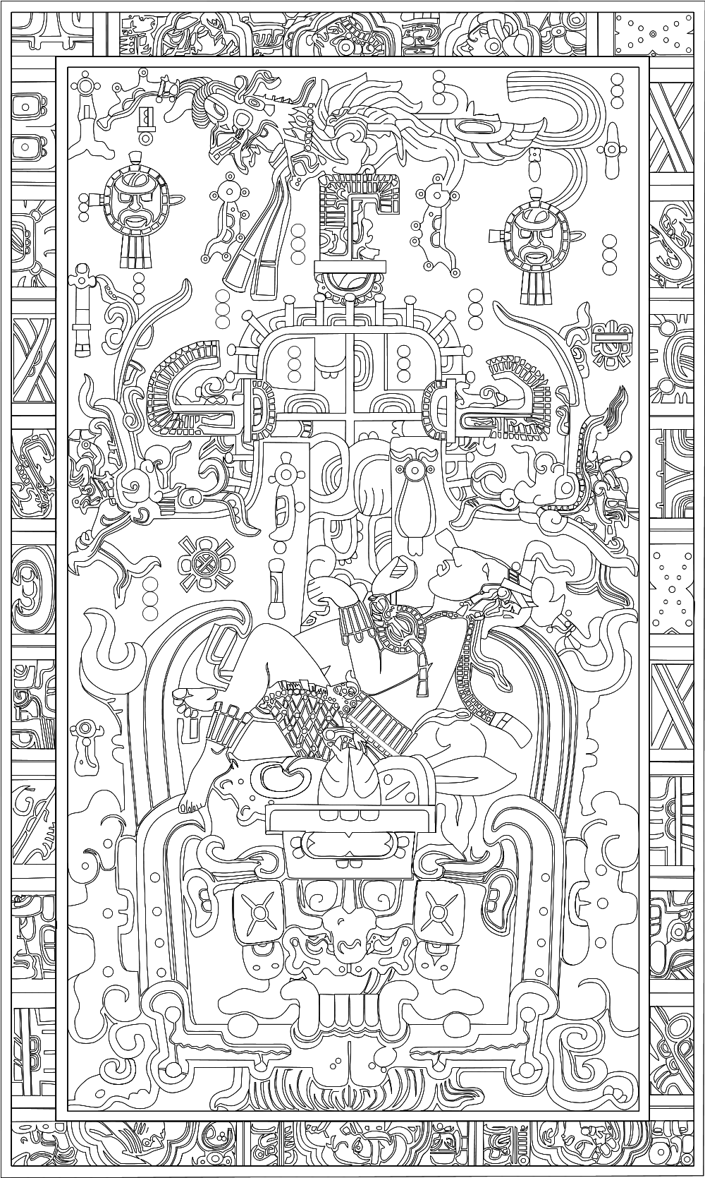 Update by eurythmia1 of original file with background now white rather than transparent, and line drawing heavier